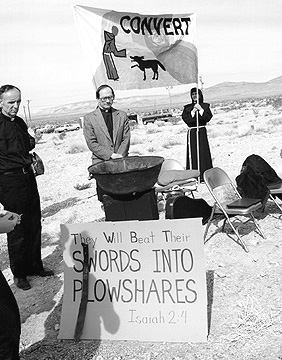 Members of Desert Lenten Experience hold a prayer vigil during the Easter period of 1982 at the entrance to the Nevada Test Site. Their sign reads "They will beat their swords into plowshares."